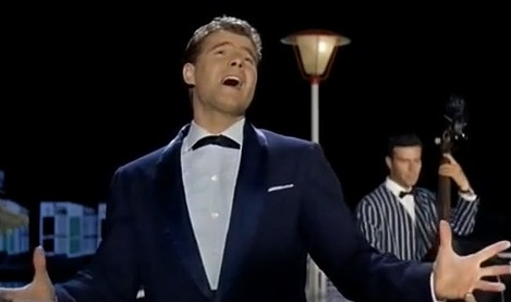 screenshot from the Italian film Caccia al marito (1960)